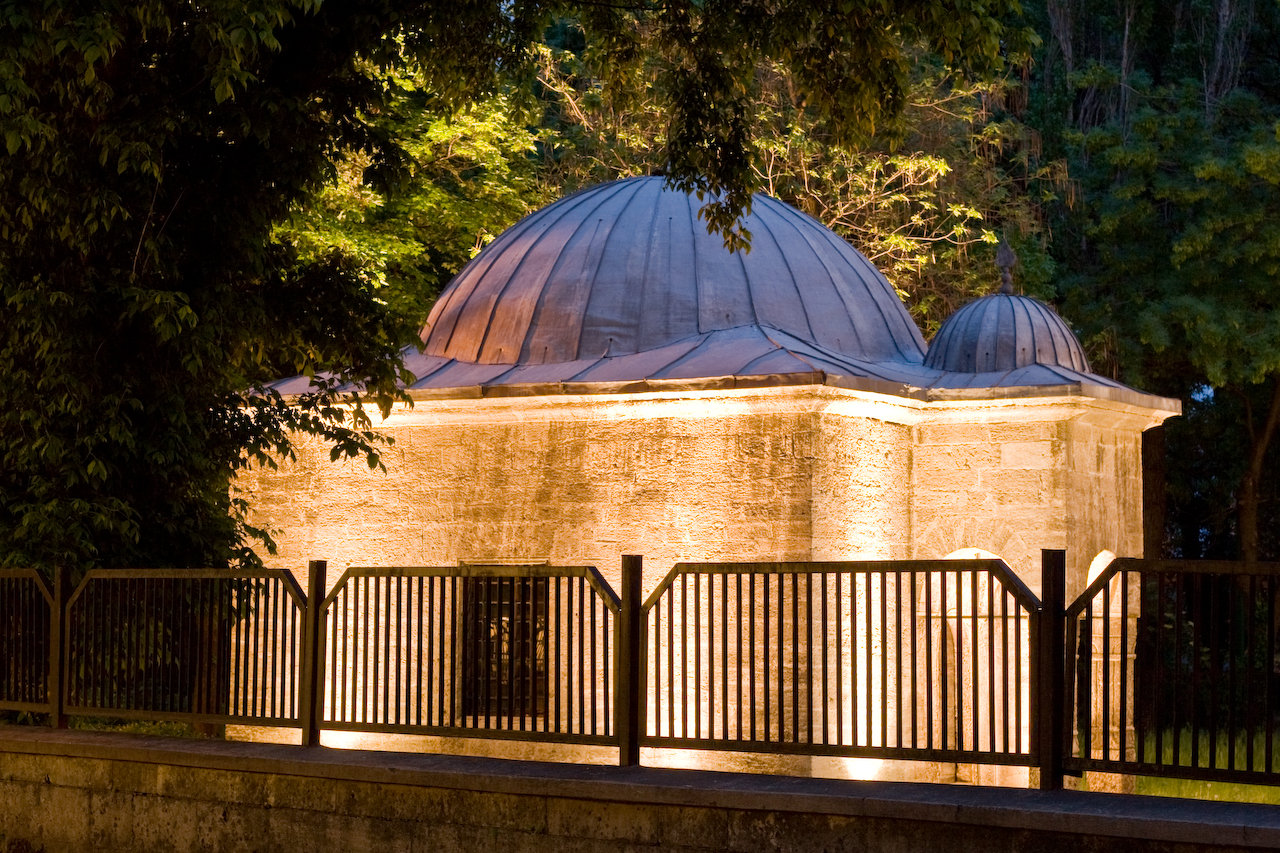 A photograph of the building of the library at the Osman Pazvantoğlu's Mosque in Vidin, Bulgaria